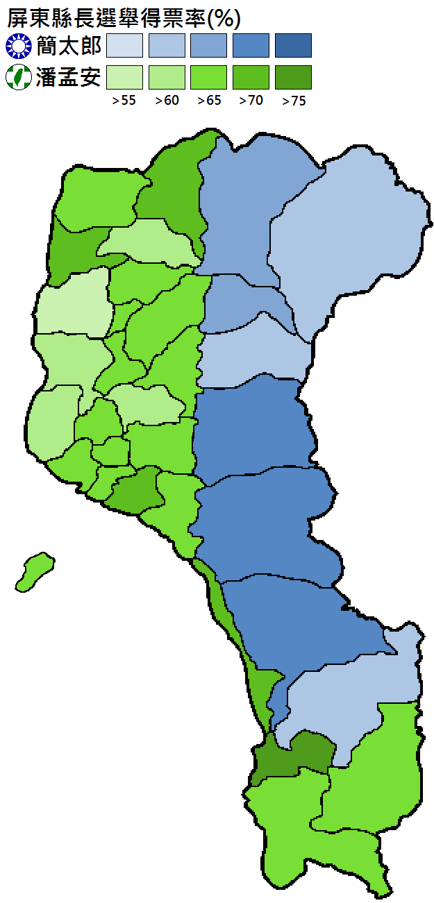 Pingtung 2014